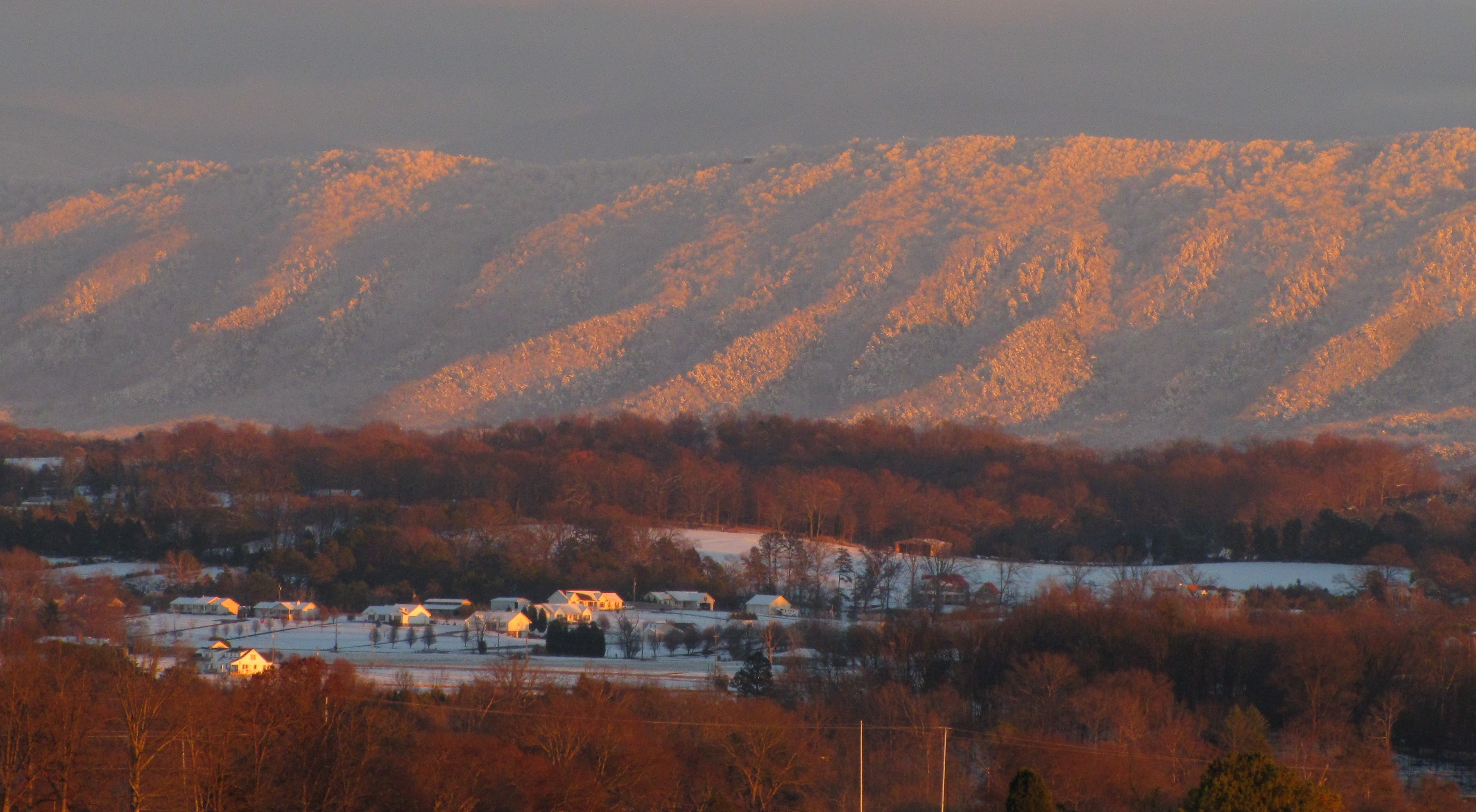 Chilhowee Mountain in Blount County, Tennessee, United States, near the Montvale area. Photograph taken from Old Sinking Creek Road in nearby Greenback.